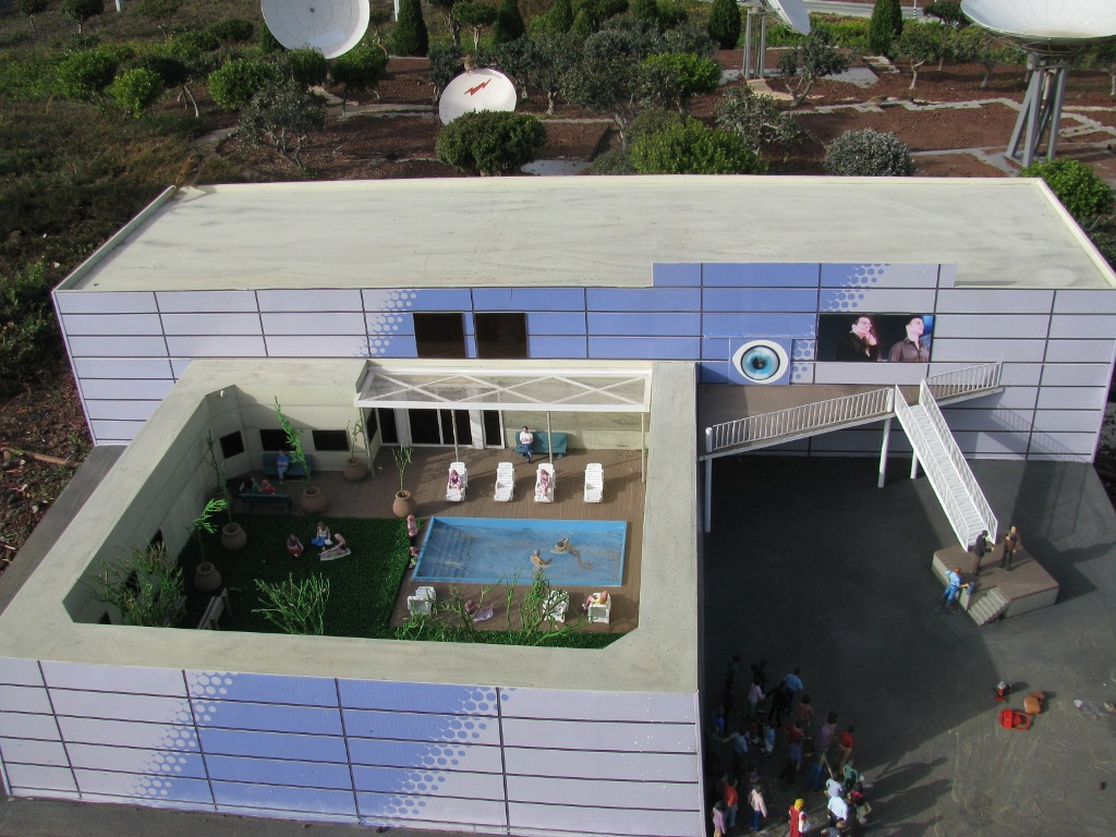 The House of \"Big Brother\" television program